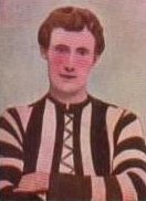 Collingwood footballer Dick Condon